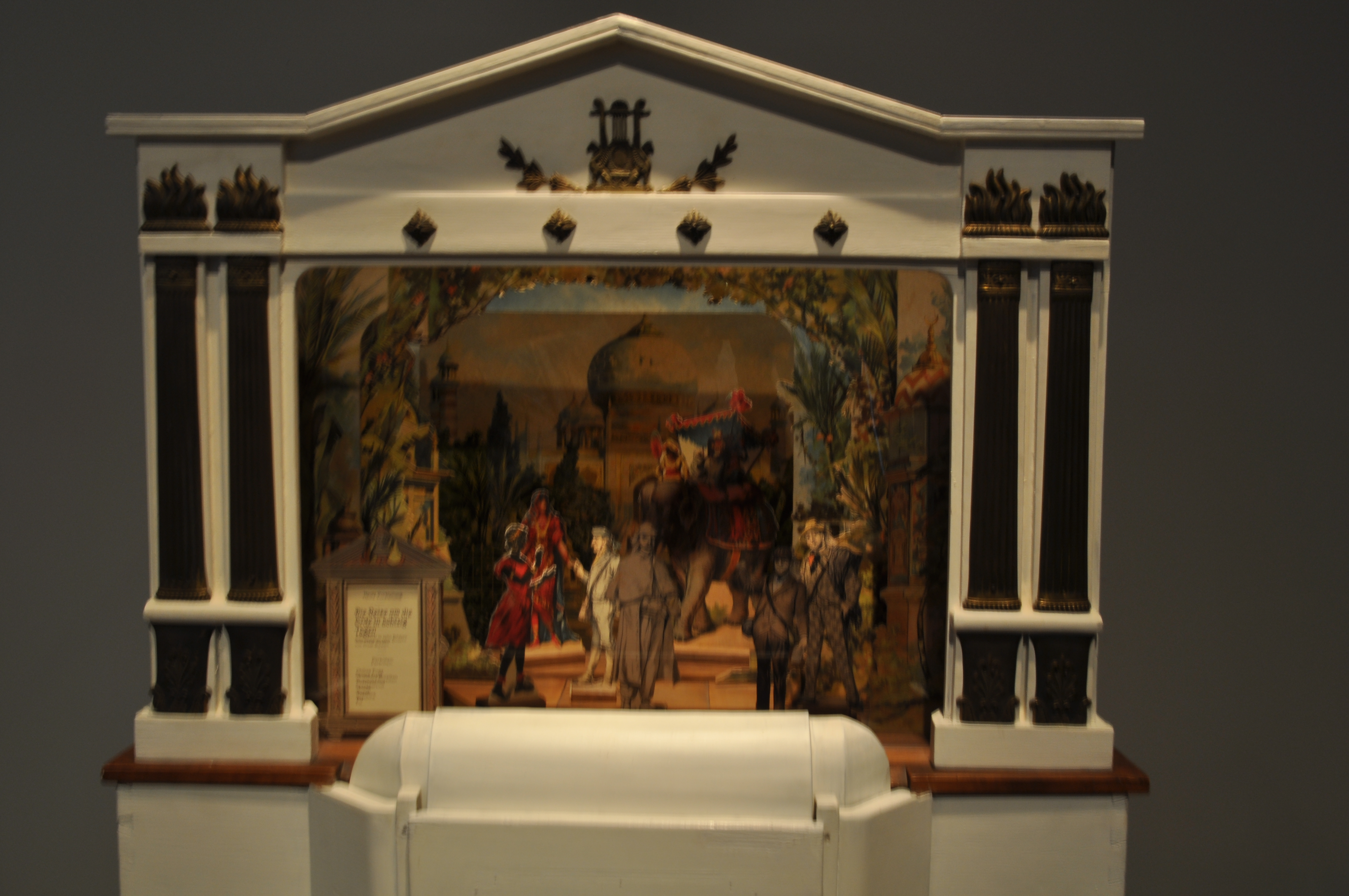 GLAM-Event at MEK (Museum Europäischer Kulturen, 2017)